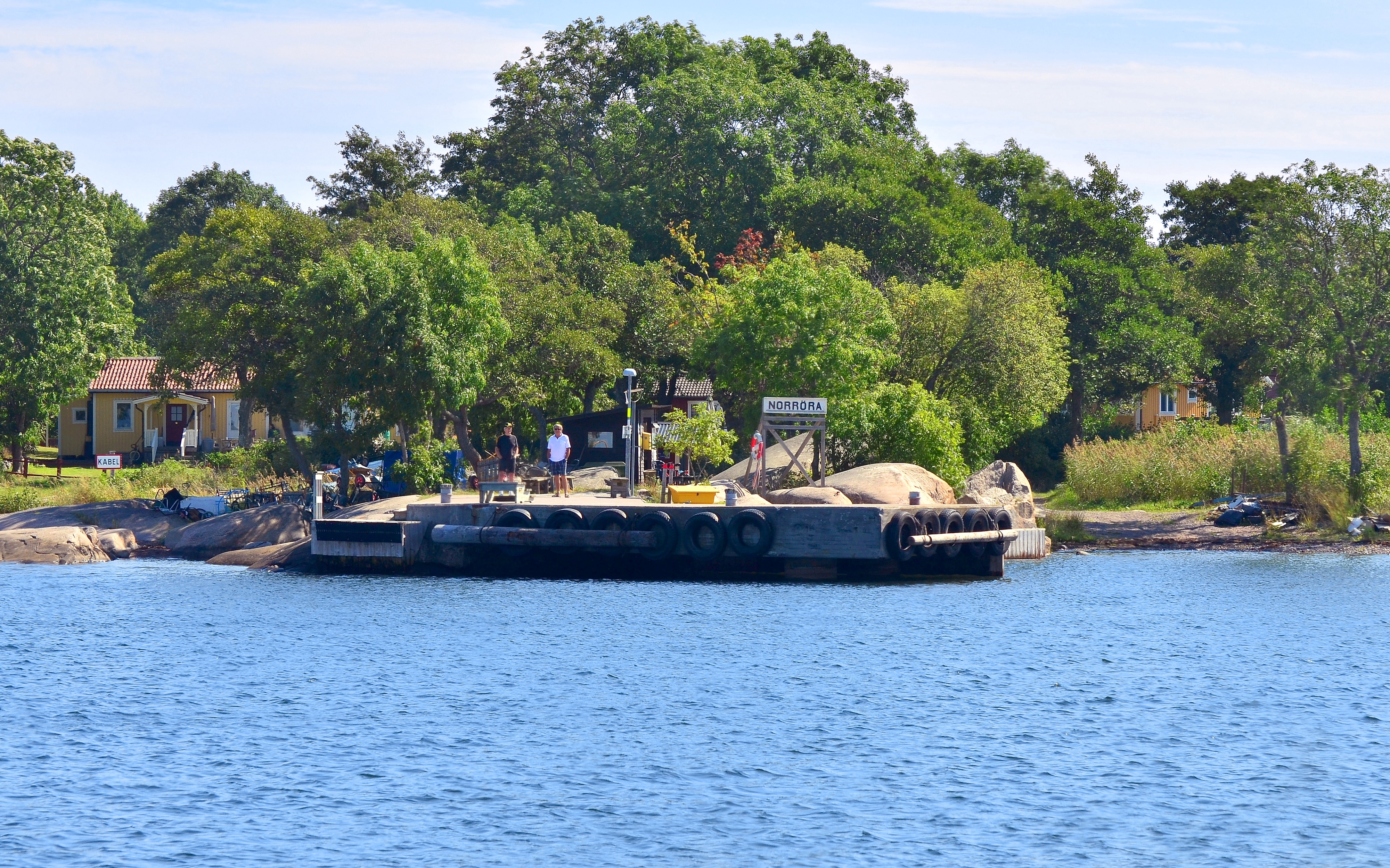 The jetty at Norröra, Stockholm archipelago, Sweden.